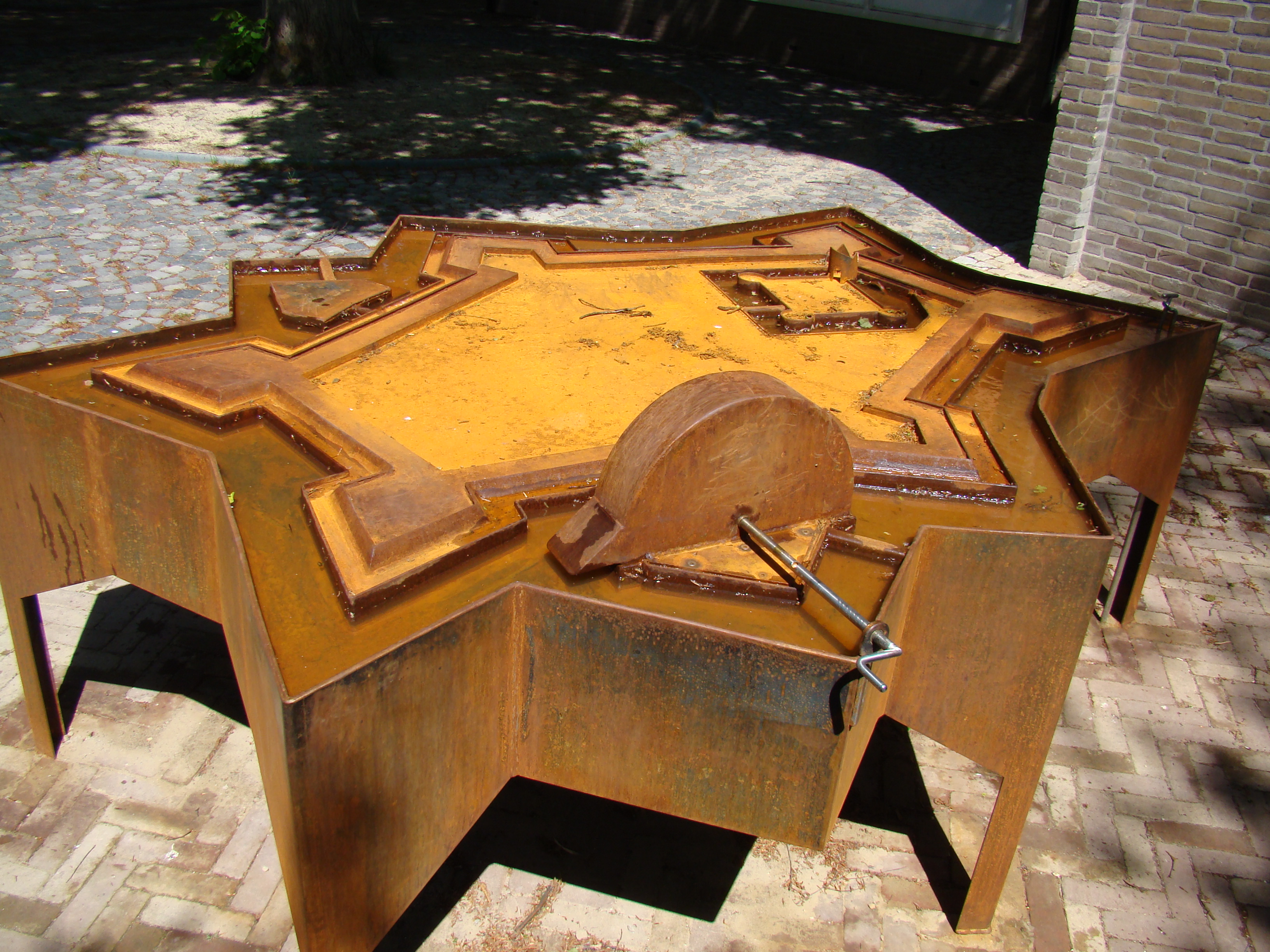 Maquette of fortifications of Bredevoort Netherlands out of Weathering steel